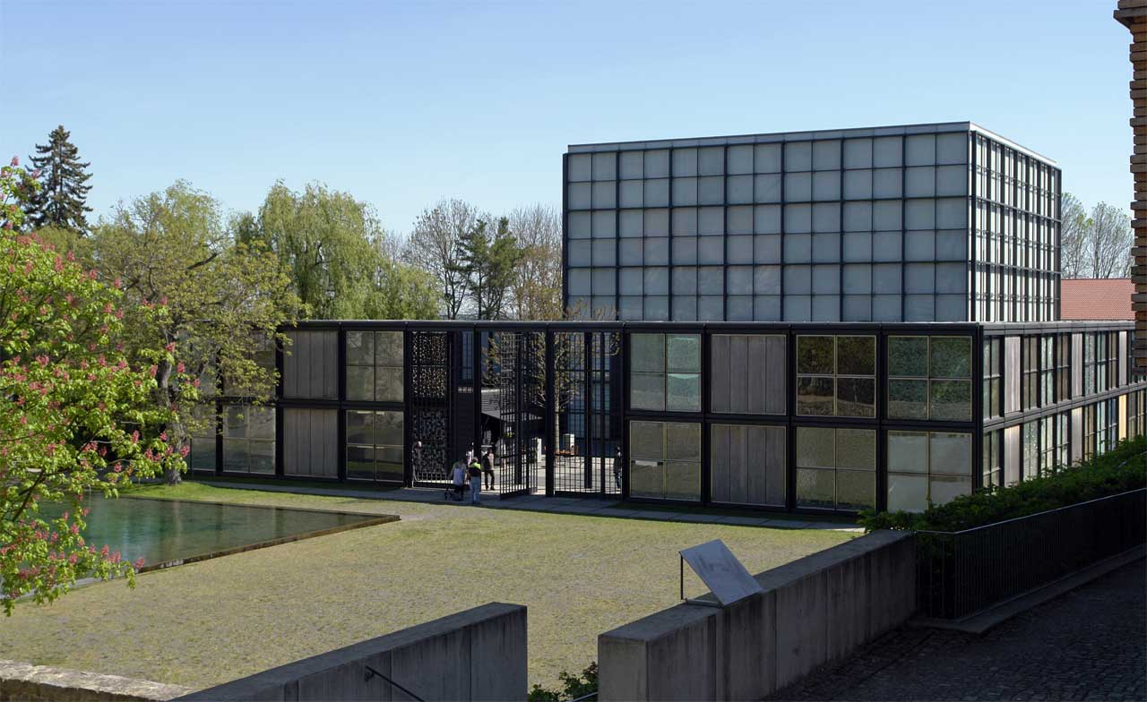 Germany. Volkenroda. Christuspavilion.